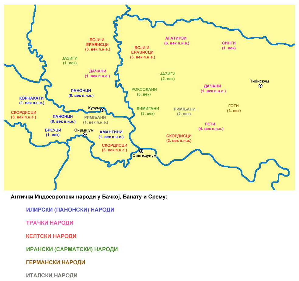 Historical map of ancient Indo-European peoples in Vojvodina.